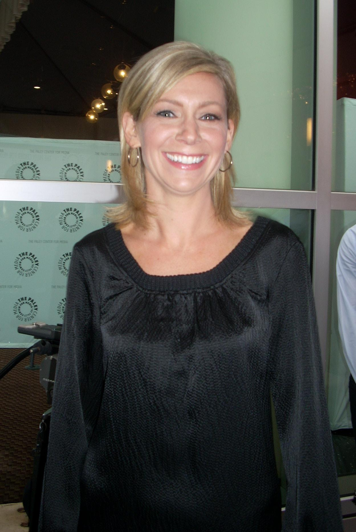 Actress Carrie Preston - "True Blood" 25th Annual Paley Television Festival - ArcLight Cinemas, Los Angeles.